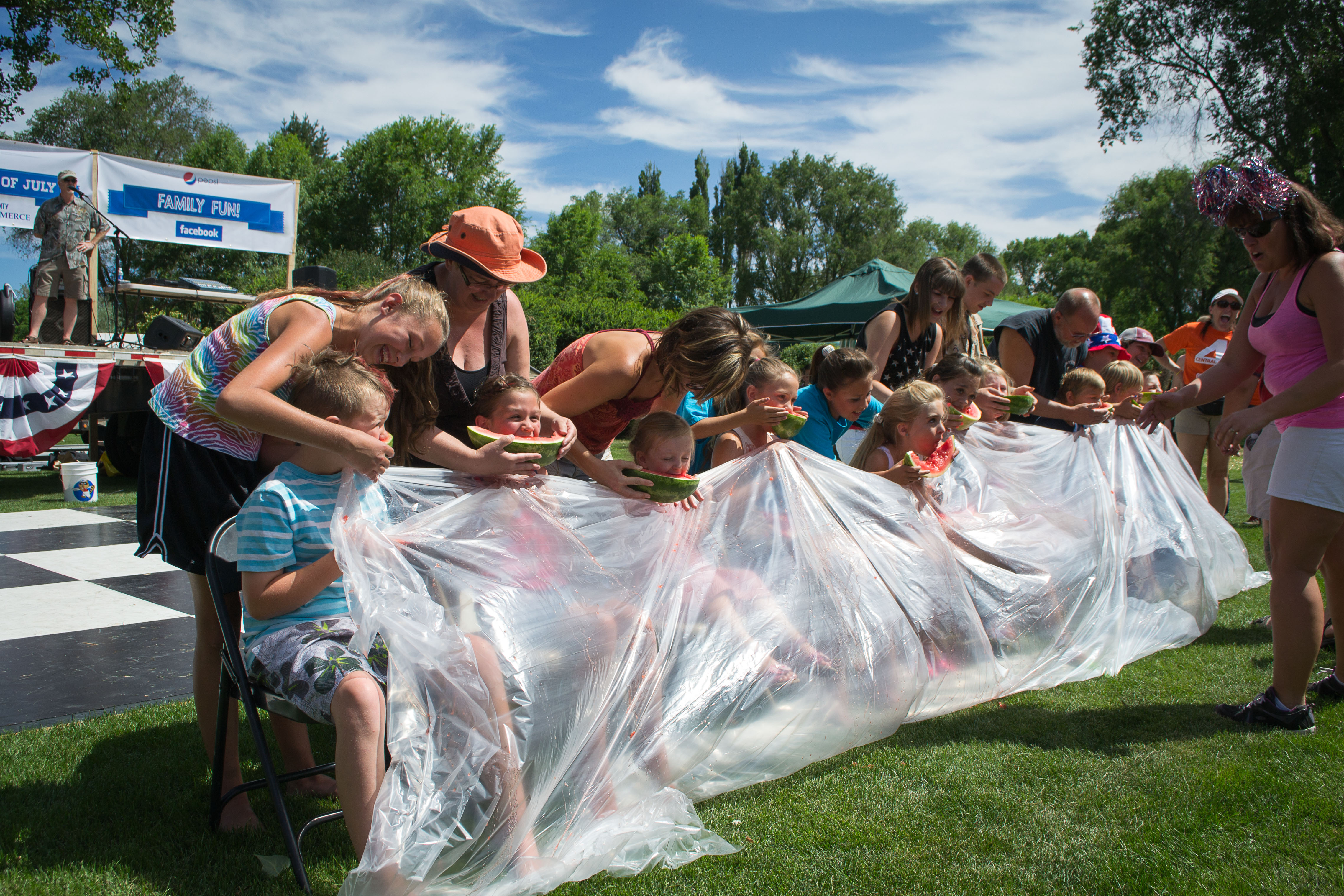 A team oriented watermelon eating contest in Prineville, Oregon